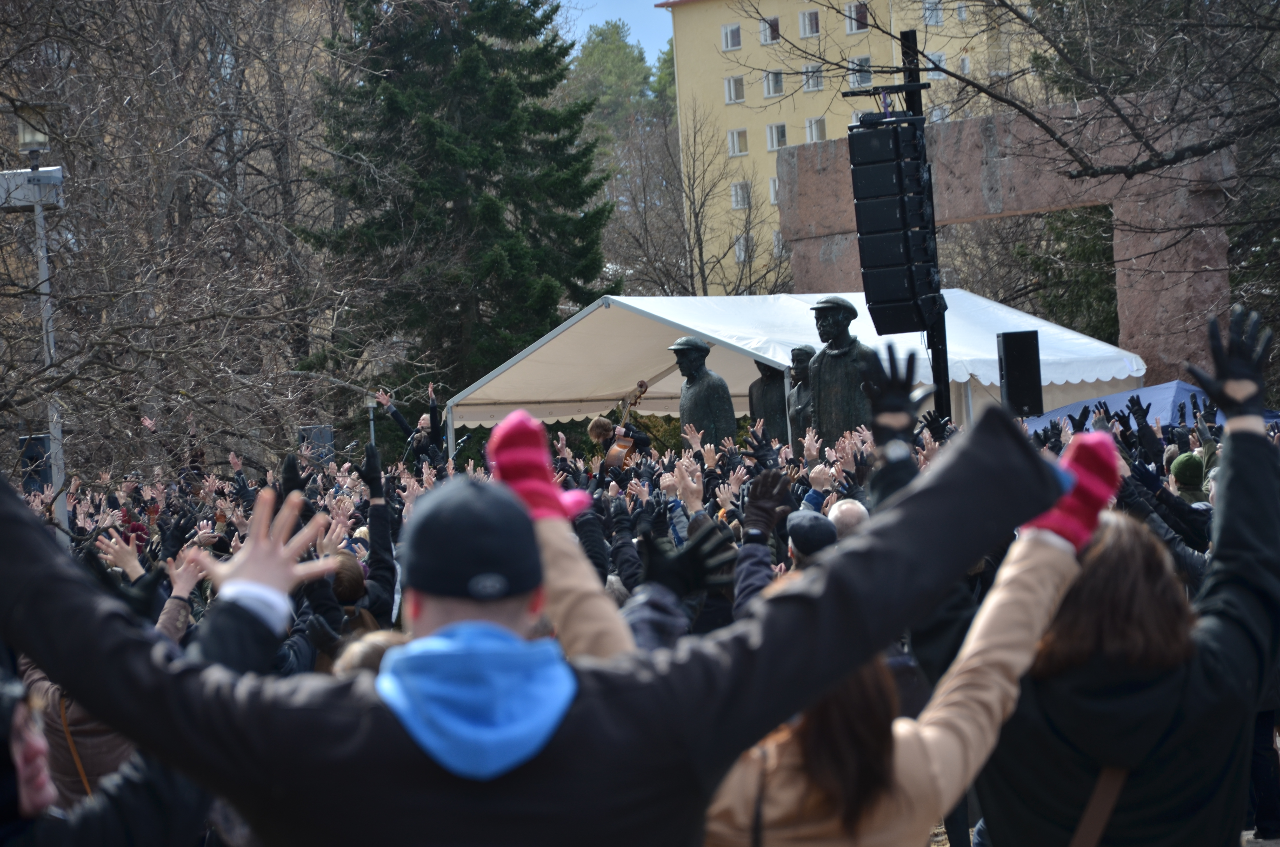 In picture a lot of people are standing in Fellman park, Lahti with their hands up and everybody is looking to same direction. Event is participatory performance “Fellman Field - Living Monument of 22 000 People” by Kaisa Salmi.